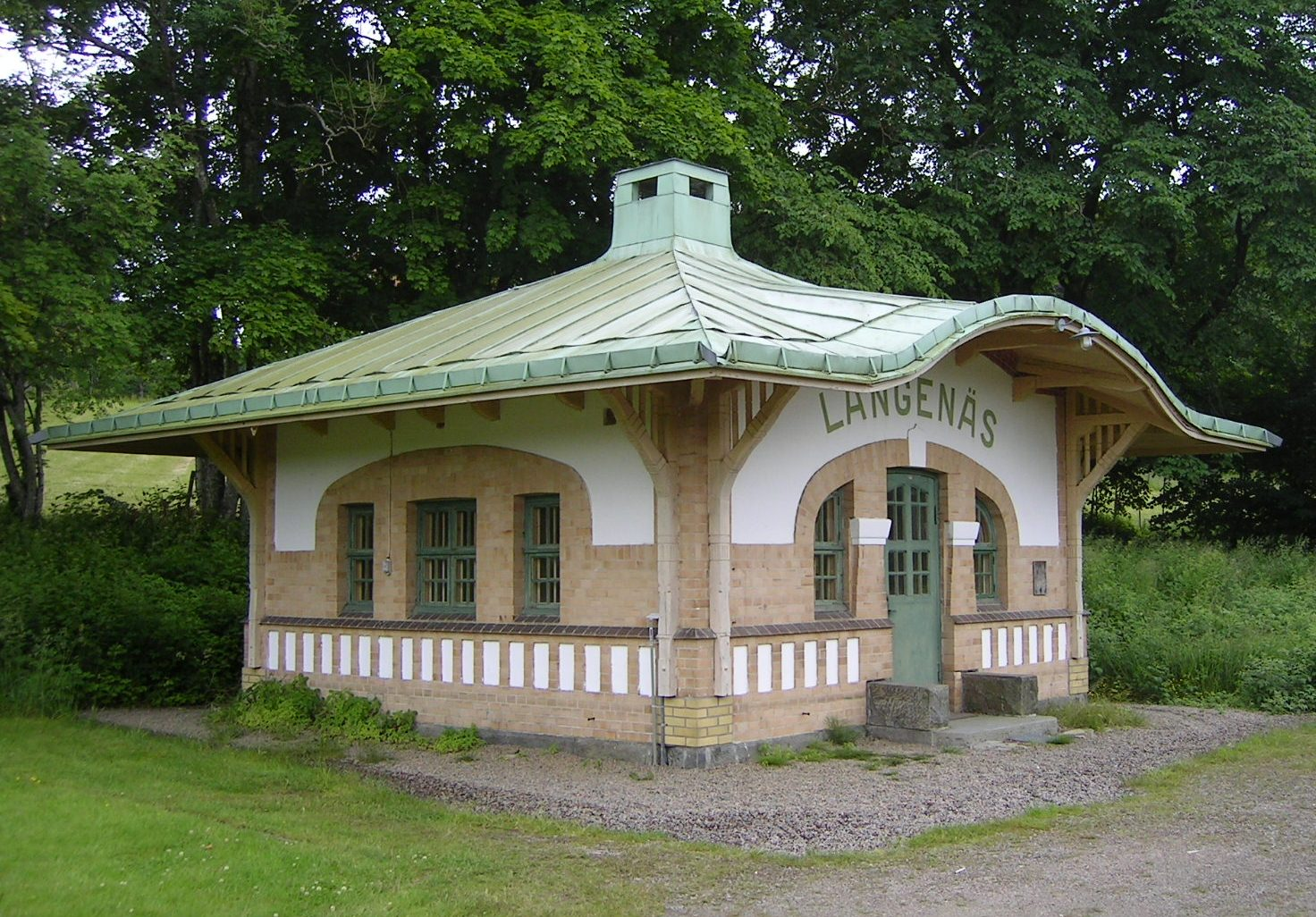 Railway stop building in Art Nouveau-style at Långenäs, Härryda municipality, Sweden. Architect: Johan Teodor Folcke